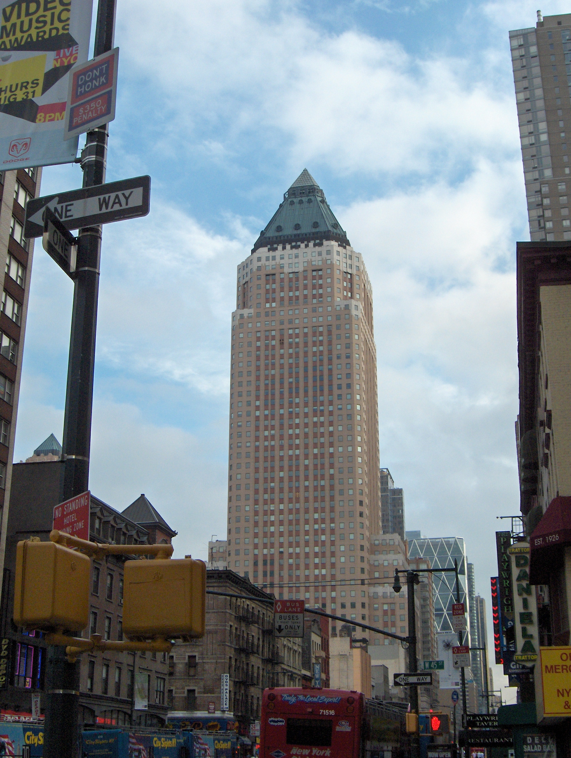 One Worldwide Plaza from Eighth Avenue and 45th Street